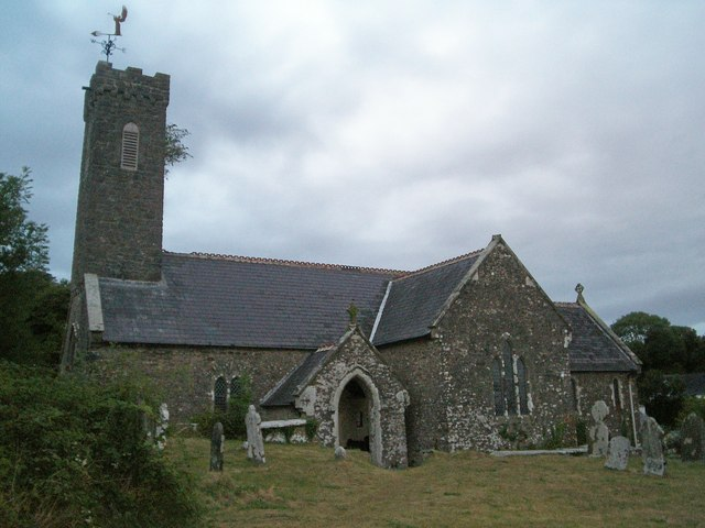 Cosheston Church. Dedicated to St Michael and All Angels, hence the striking weather vane.